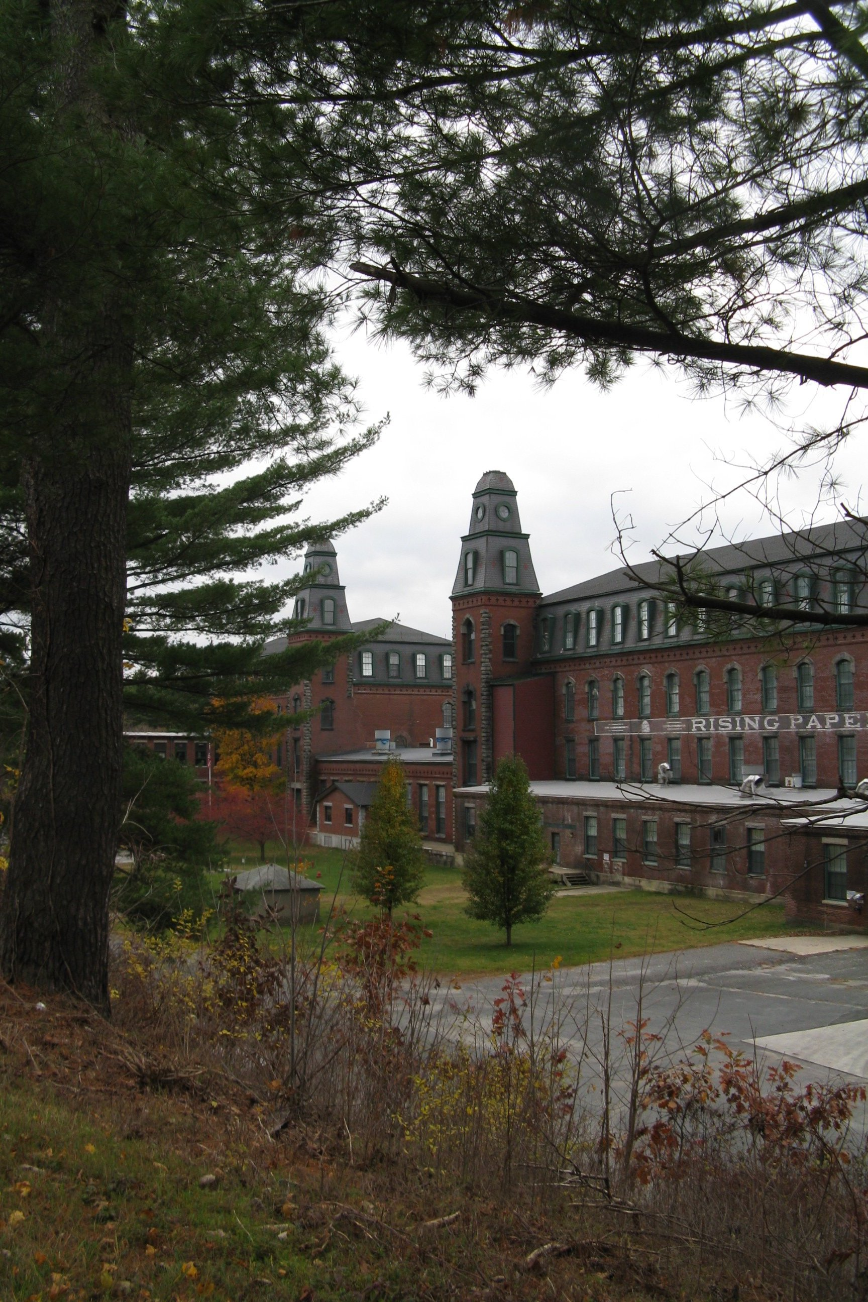 Rising Paper Mill, Risingdale Massachusetts